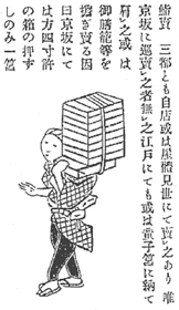 A picture of sushi seller at japanese edo period.